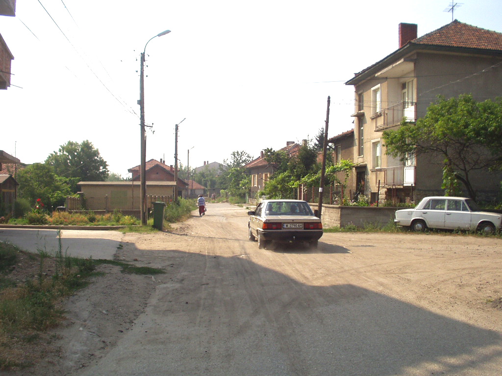 Shishman Street, Lom, Bulgaria